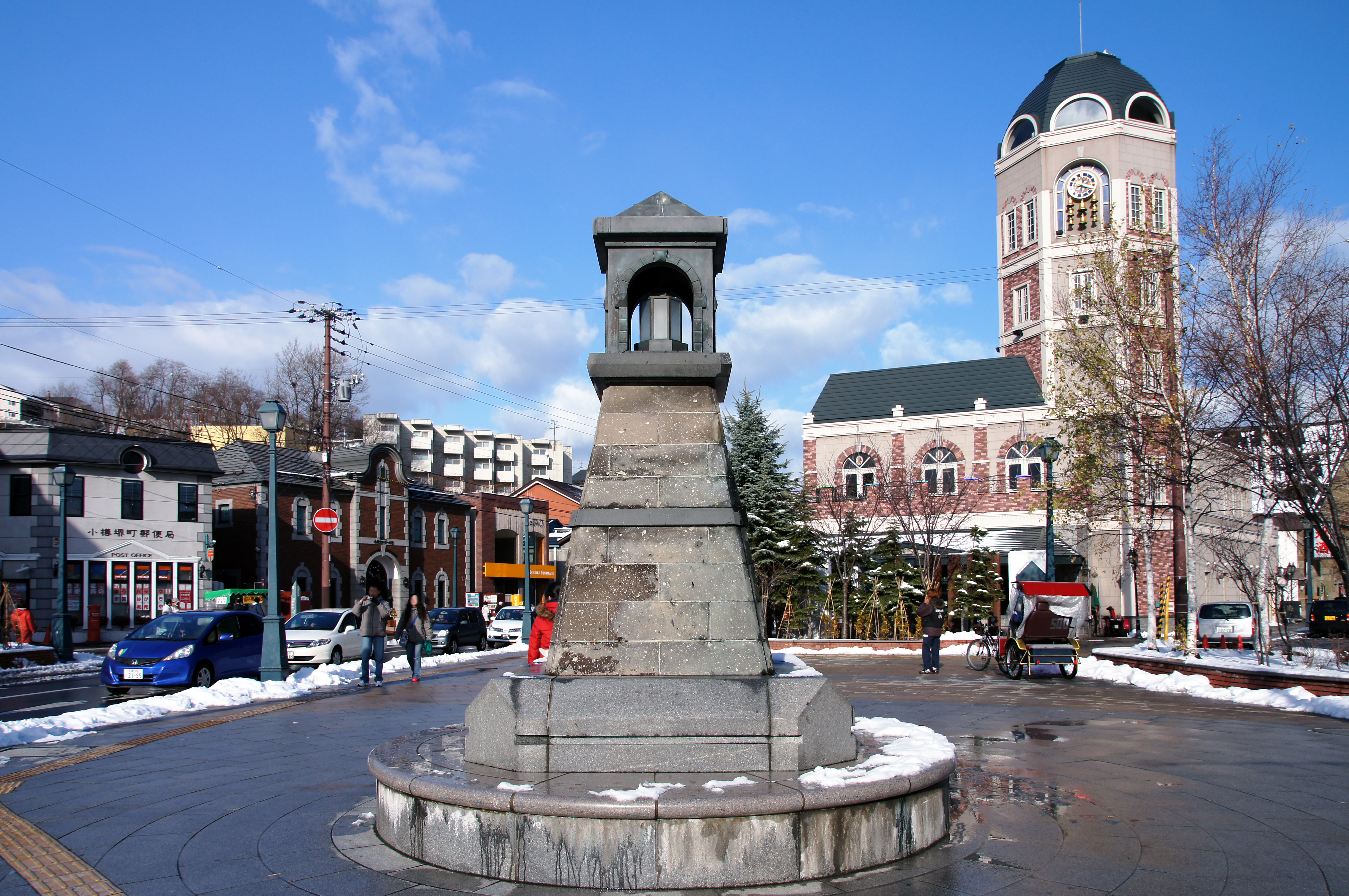 The Marchen Crossing in Otaru, Hokkaido prefecture, Japan